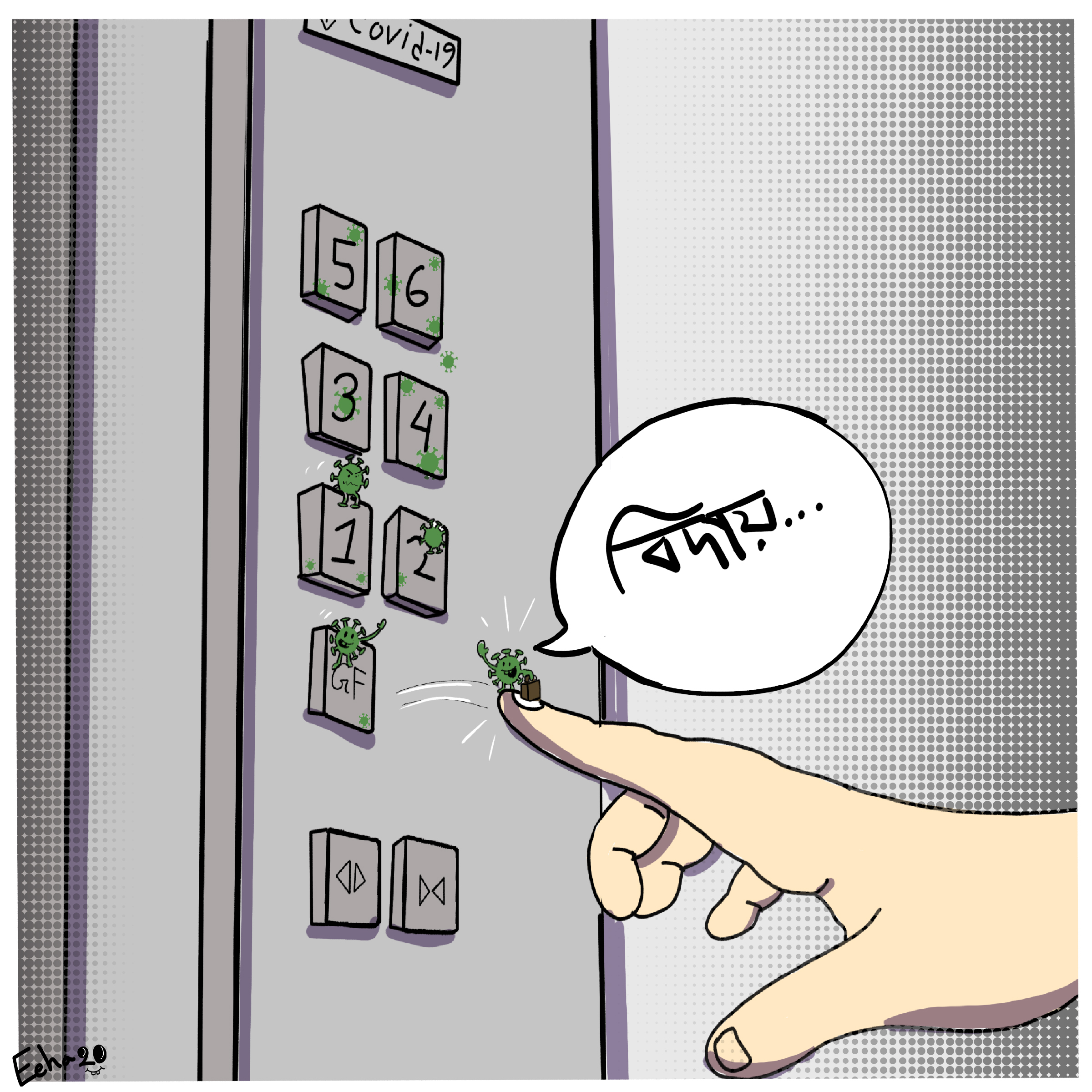 Artist, Visualization & dialogue : Anika Nawar Eeha Concept: Abdullah Al Mamun